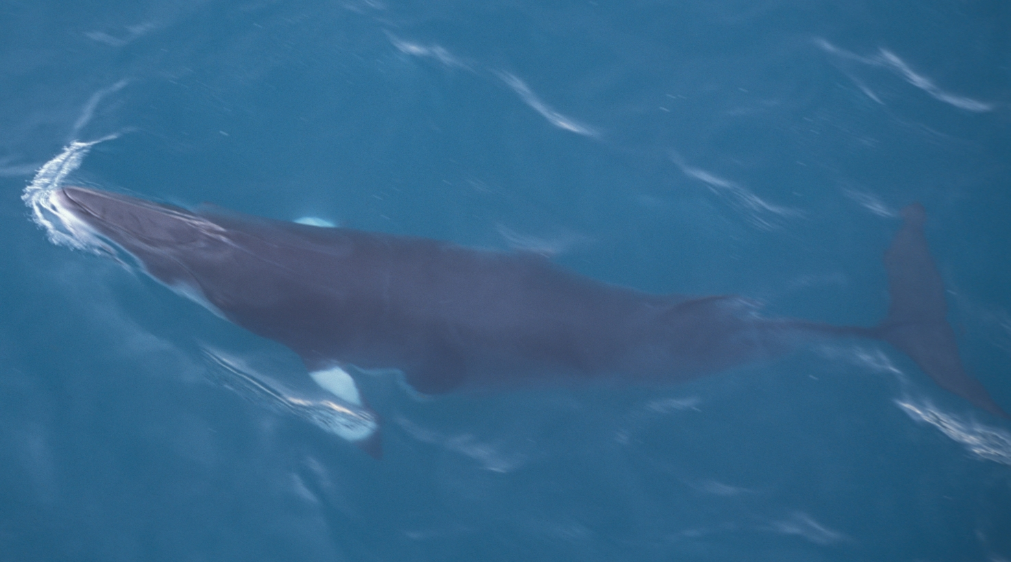 Rui Prieto/DOP; a Minke whale (Balaenoptera acutorostrata)